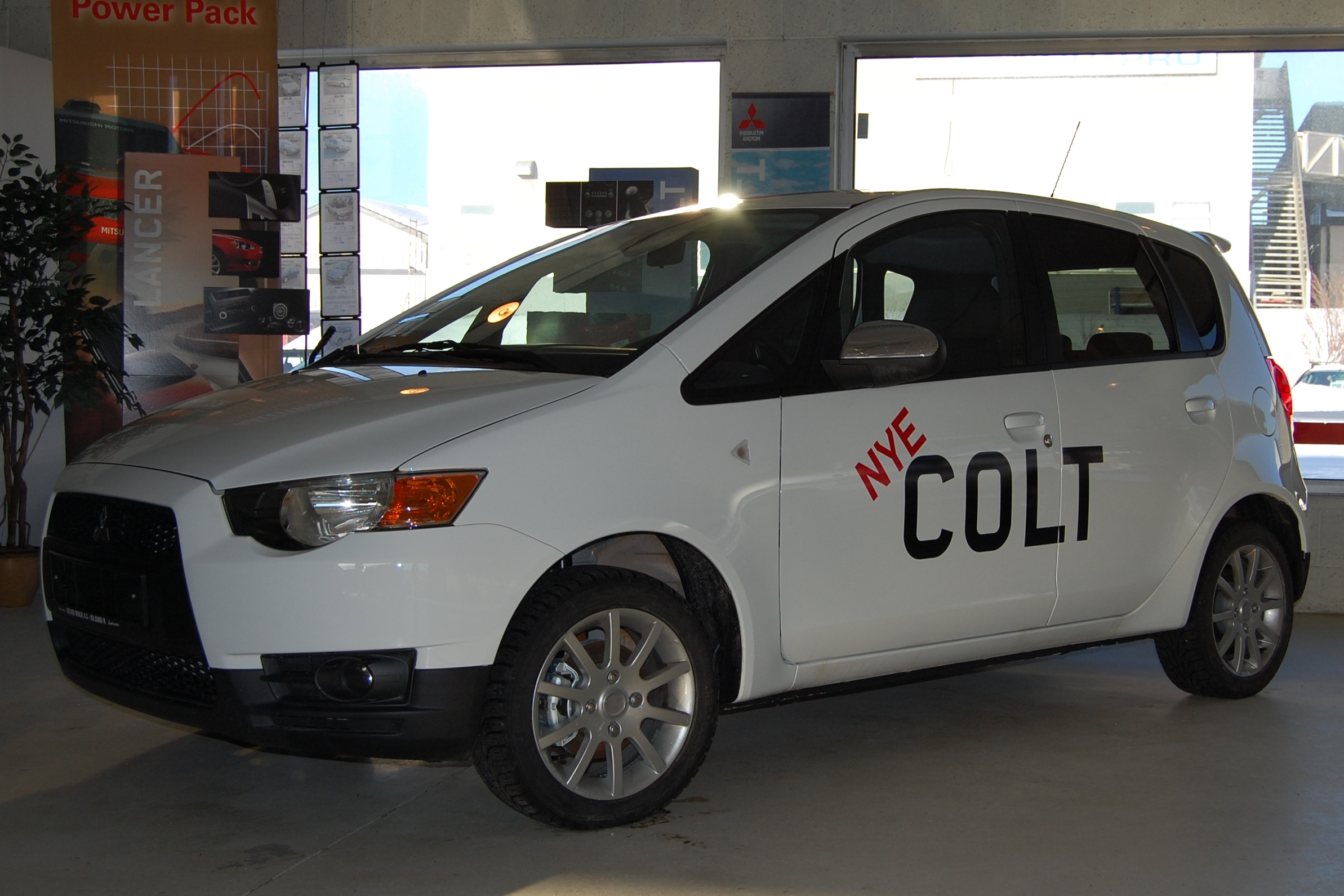 Mitsubishi Colt 2009 model